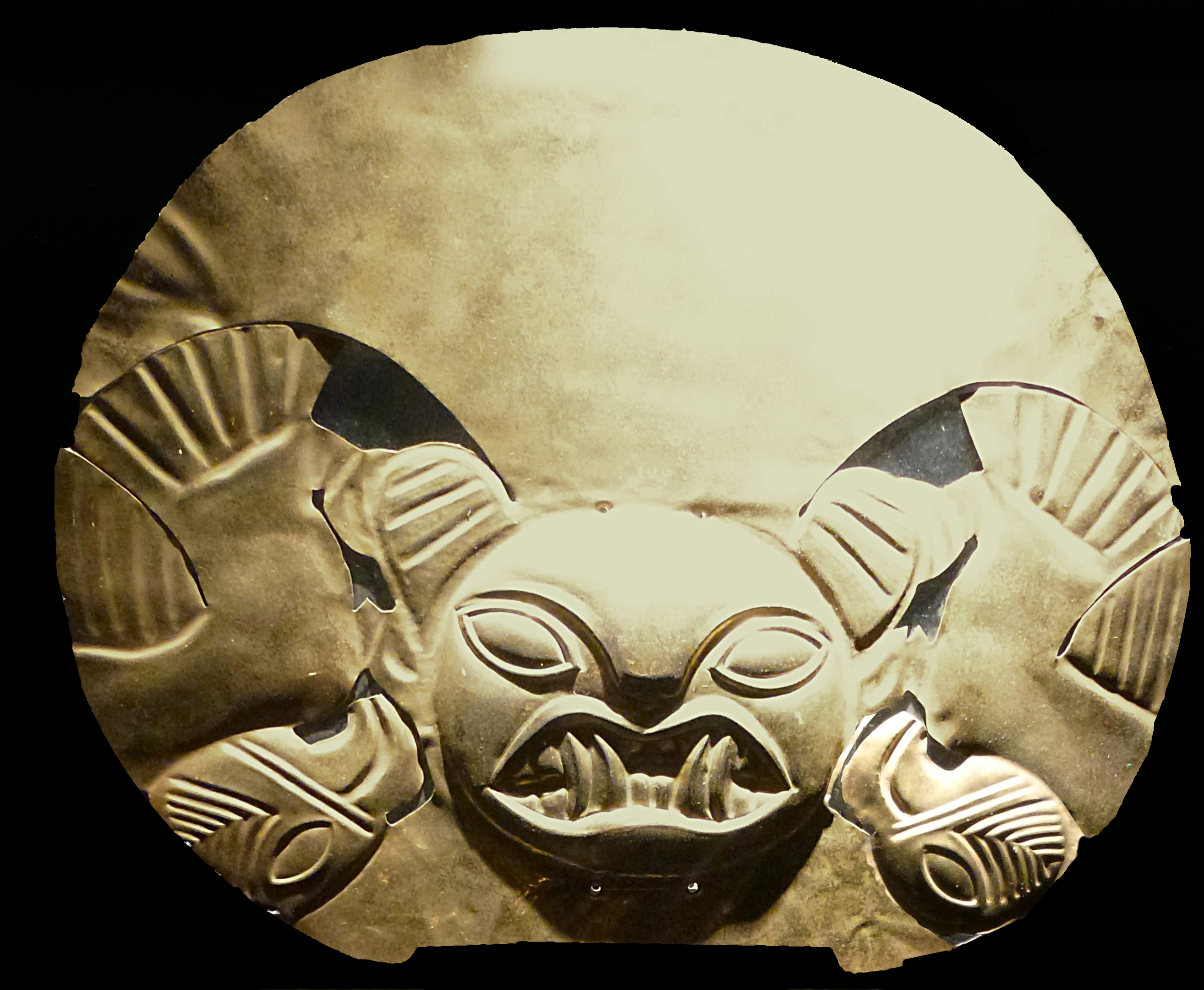 mochica headdress in Museo Arqueológico Rafael Larco Herrera Lima Peru